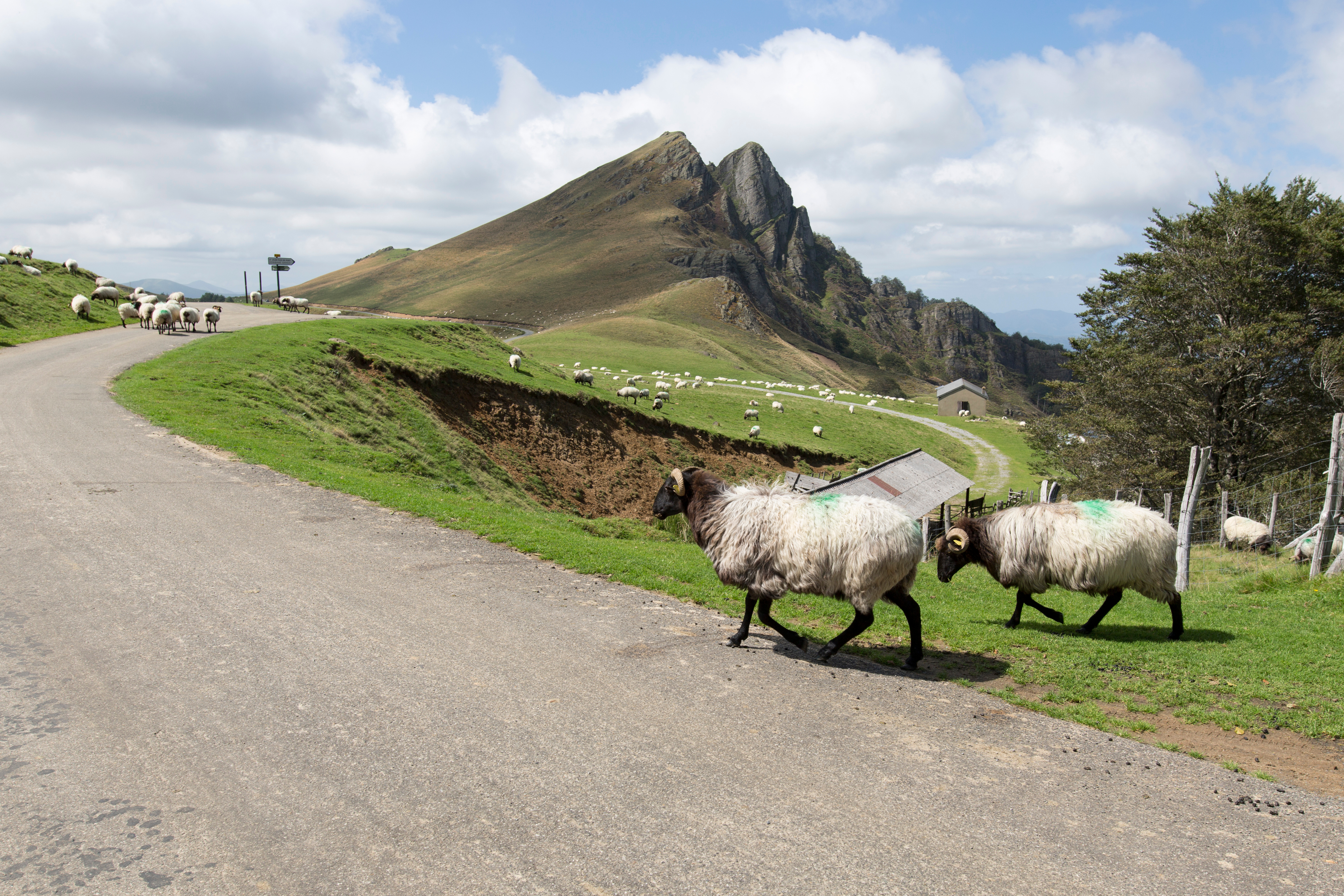 Irauko Tuturrua